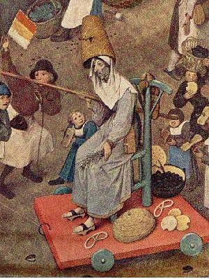 Pieter Bruegel the Elder, Detail of painting The Fight Between Carnival and Lent (1559), oil on wood, 46 in x 65 in, Kunsthistorisches Museum, Vienna. Note: Bread and pretzels are on Lent's cart.